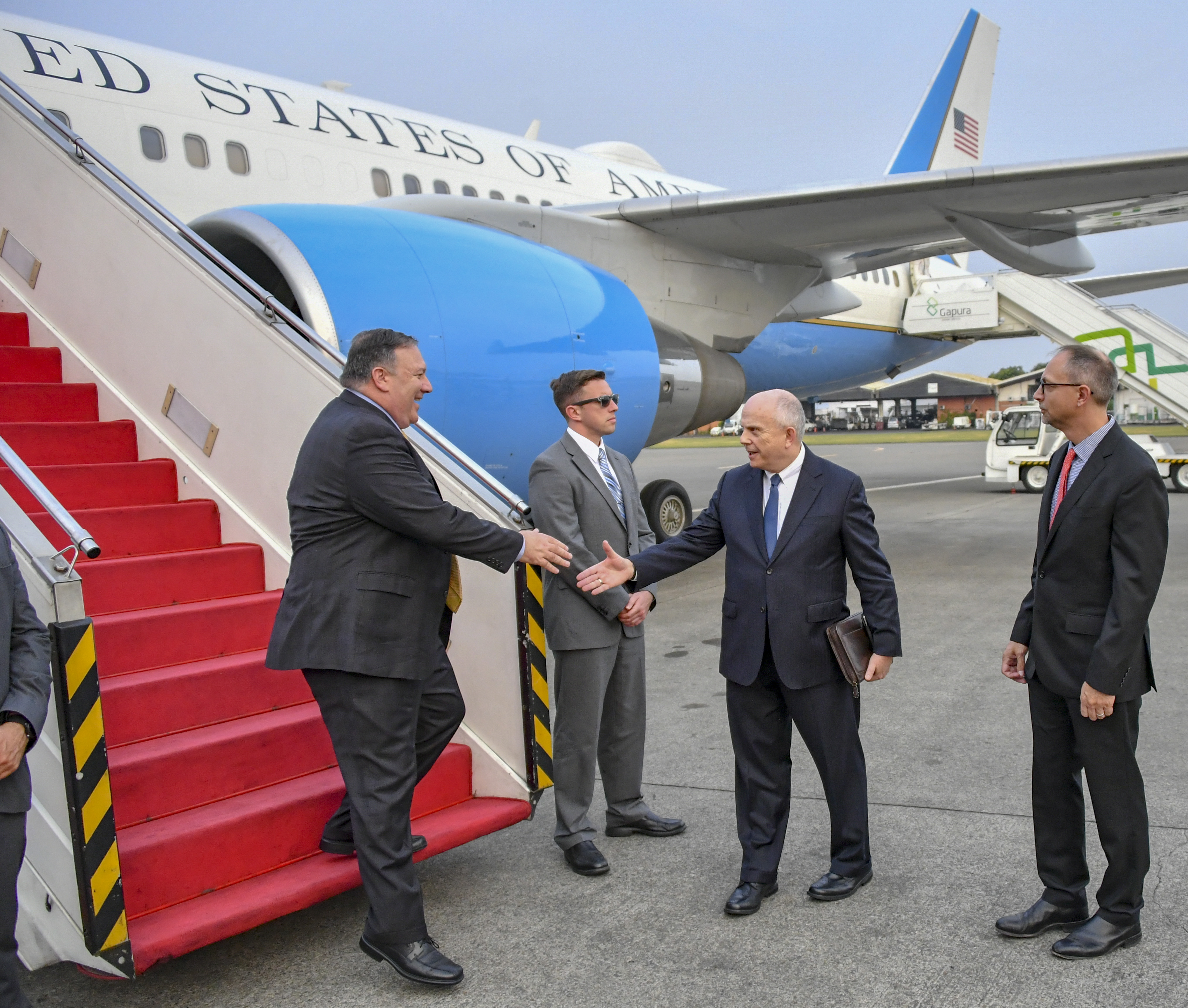 Secretary Michael R. Pompeo arrives at the Jakarta Airport and is greeted by Ambassador Joseph Donovan, Jr., MFA’s Director for North America and Central America Affairs Zelda Wulan Kartika, and a Protocol representative August 4, 2018. [State Department Photo / Public Domain]